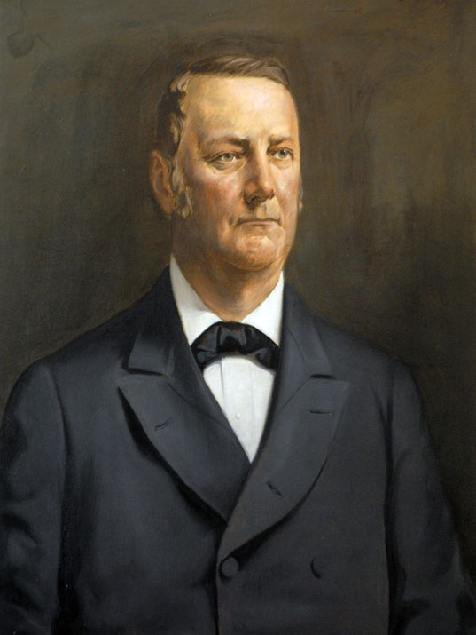 John Merryman, Maryland state treasurer, and the petitioner in the case "Ex parte Merryman", one of the best known habeas corpus cases of the American Civil War Oil on canvas attributed to Meredith Janvier, c. 1910-1920. Maryland Commission on Artistic Property. MSA SC 1545-1197.